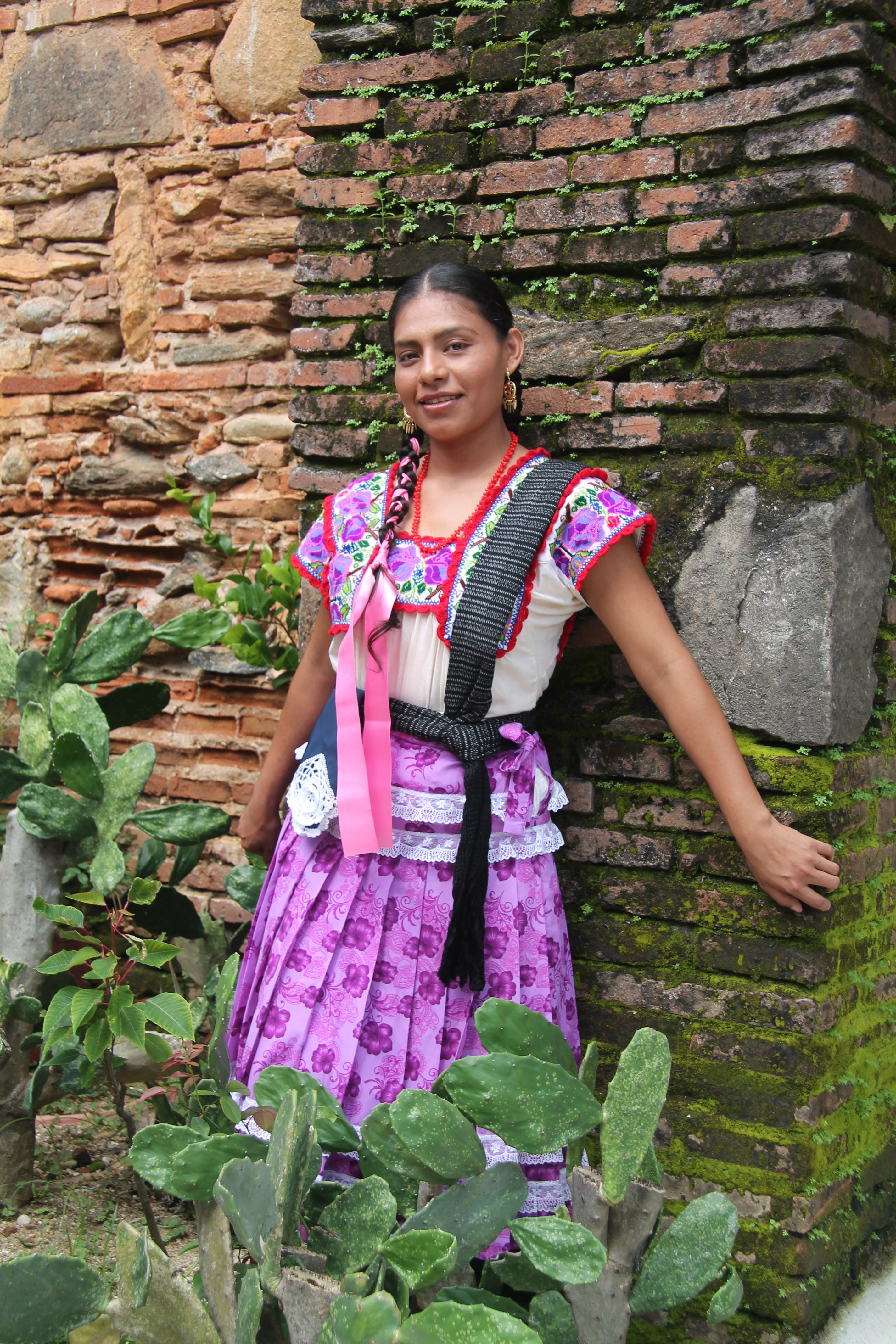 Mexican woman posing in a colorful costume.